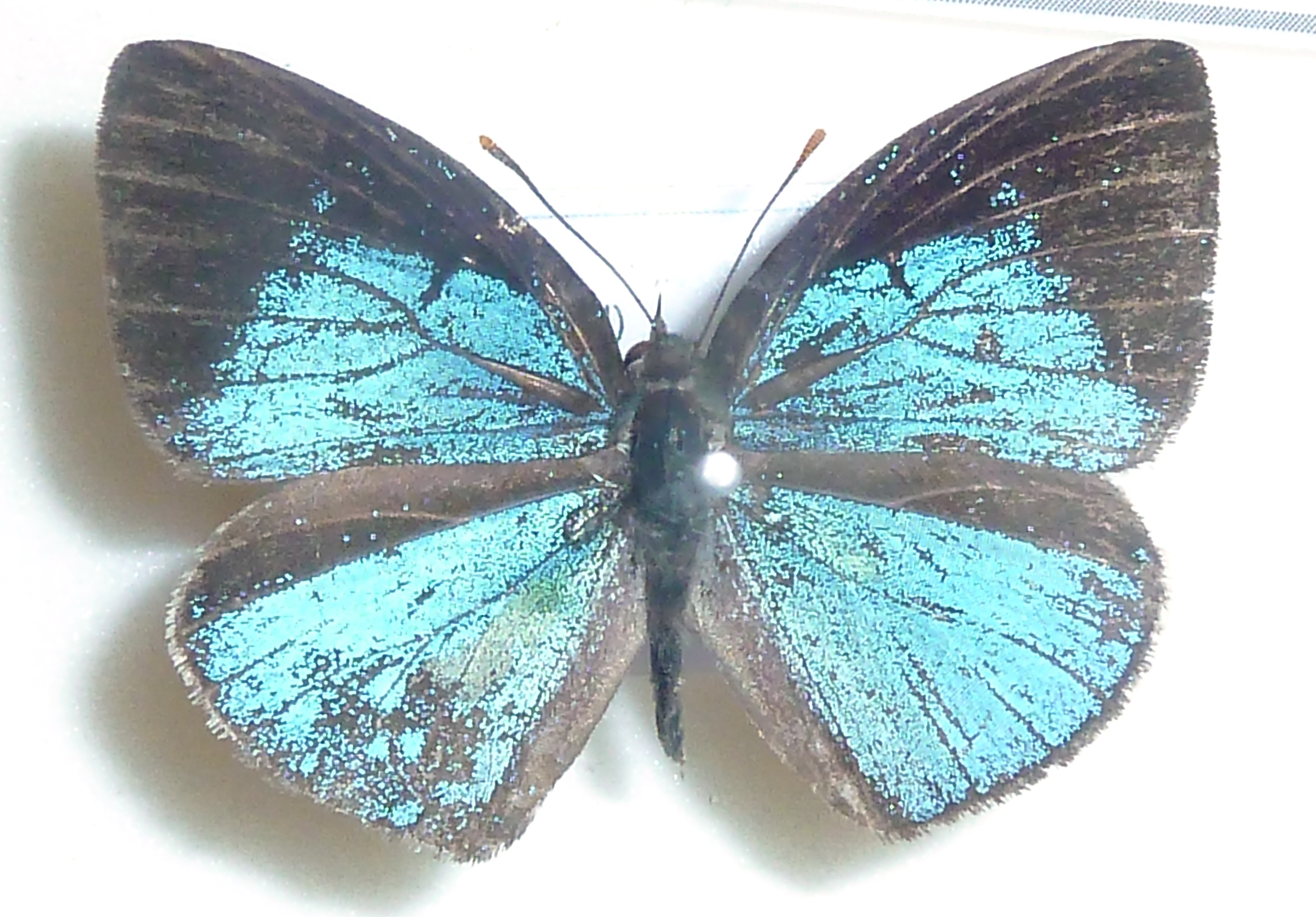 Central stork epitola in a collection of J Dobson